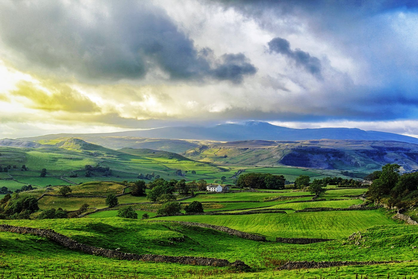 Yorkshire Dales